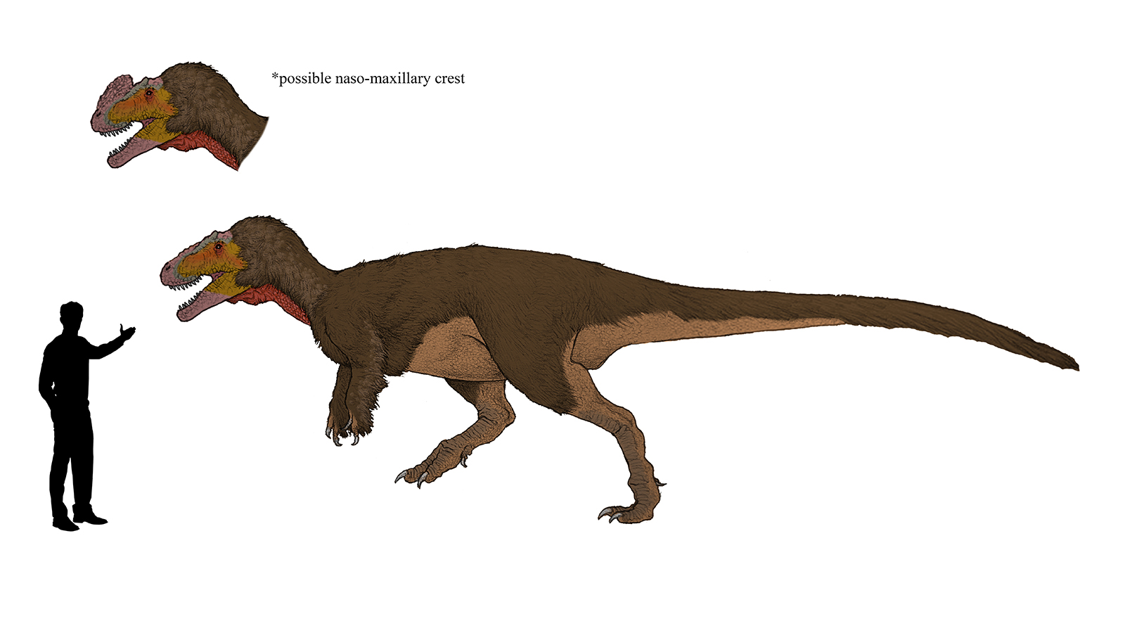 a scale reconstruction